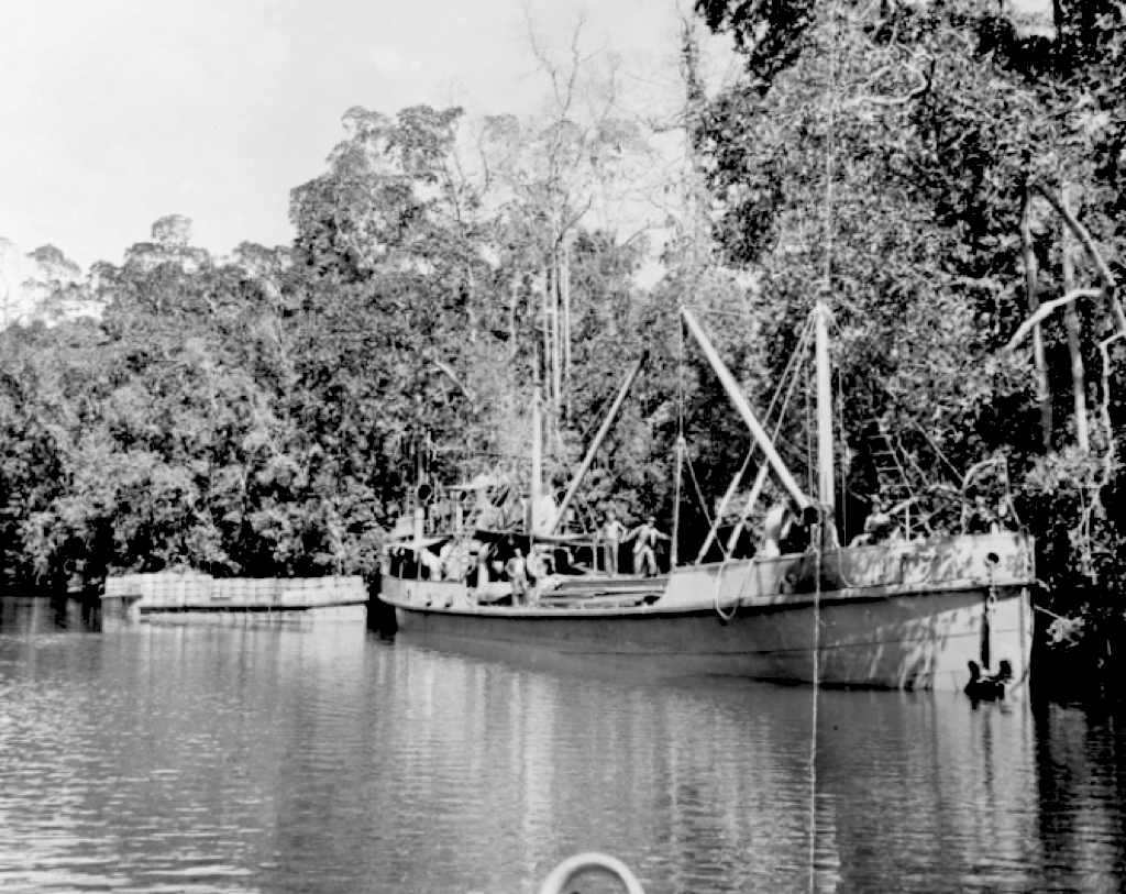 New Guinea: Mubo Salamaua Area, Morobe. The motor ship Tassie III (S-77) of the Small Ships Section, United States Army Services of Supply, Southwest Pacific Area (USA SOS SWPA) at a hideout at Morobe. The Tassie III was acquired from the Marine Board, Launceston, Tasmania, on 28 August 1942. InitiiallyAustralian ships were requisitioned and chartered by the Small Ships Section. Construction of ships for USA SOS SWPA commenced in Australia in 1942. Approximately 3000 vessels were constructed, including freighters, launches, tugs, towboats, lighters, rescue and salvage boats and a large number of barges. An additional 4000 lifeboats and dinghies were built. Around 3000 Australians enlisted in the Small Ships Section during the Second World War. They were not inducted members of the US Army, but were civilians attached to the Army. They were often too young, too old or physically ineligible to enlist in the Australian armed forces.